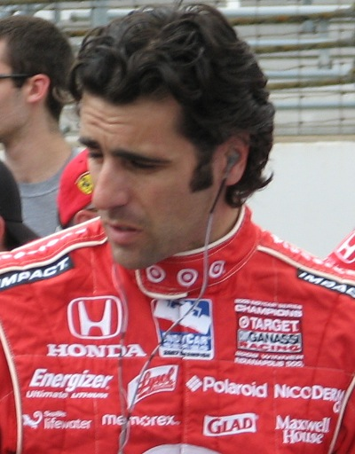 Dario Franchitti at the Indianapolis Motor Speedway for Miller Lite Carb day for the 2009 Indianapolis 500.